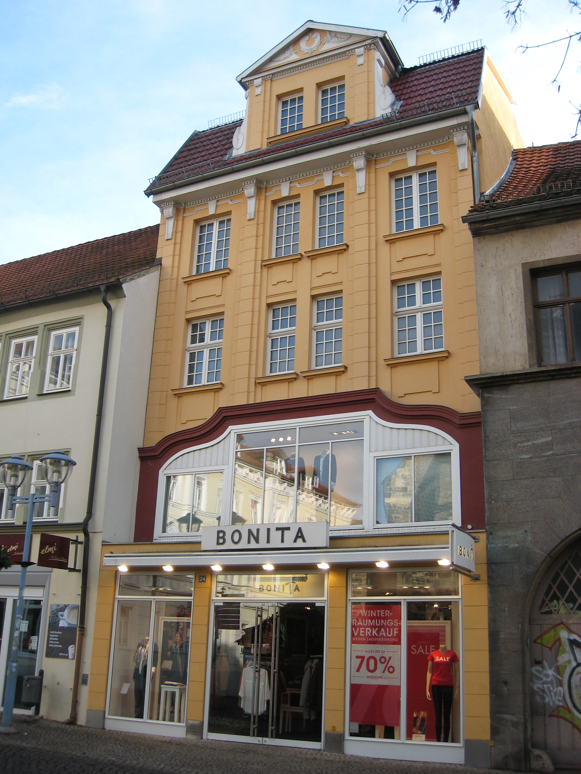 House Neumarkt 24 Gotha